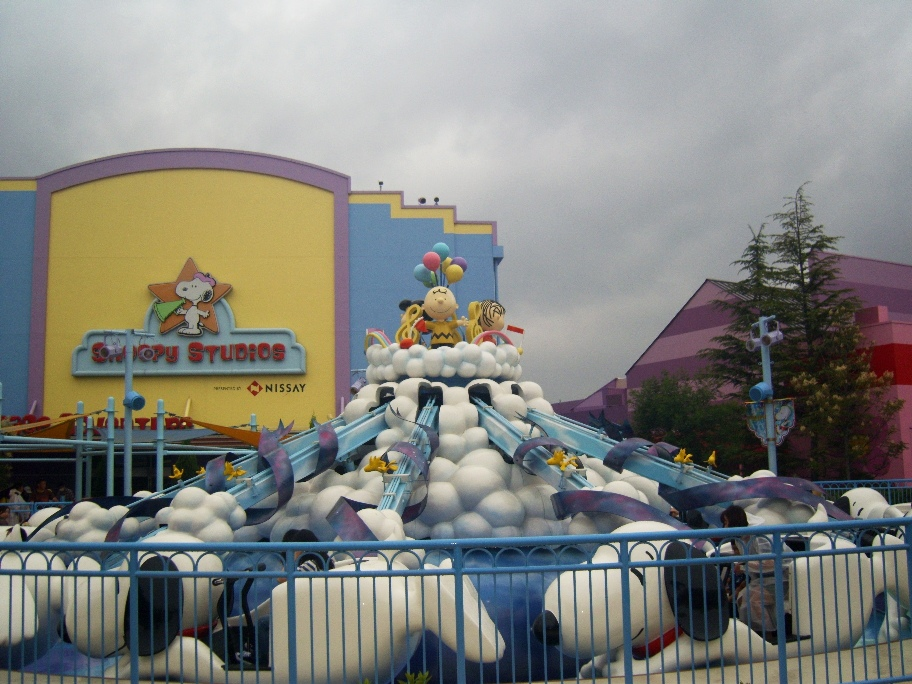 Universal Studios Japan